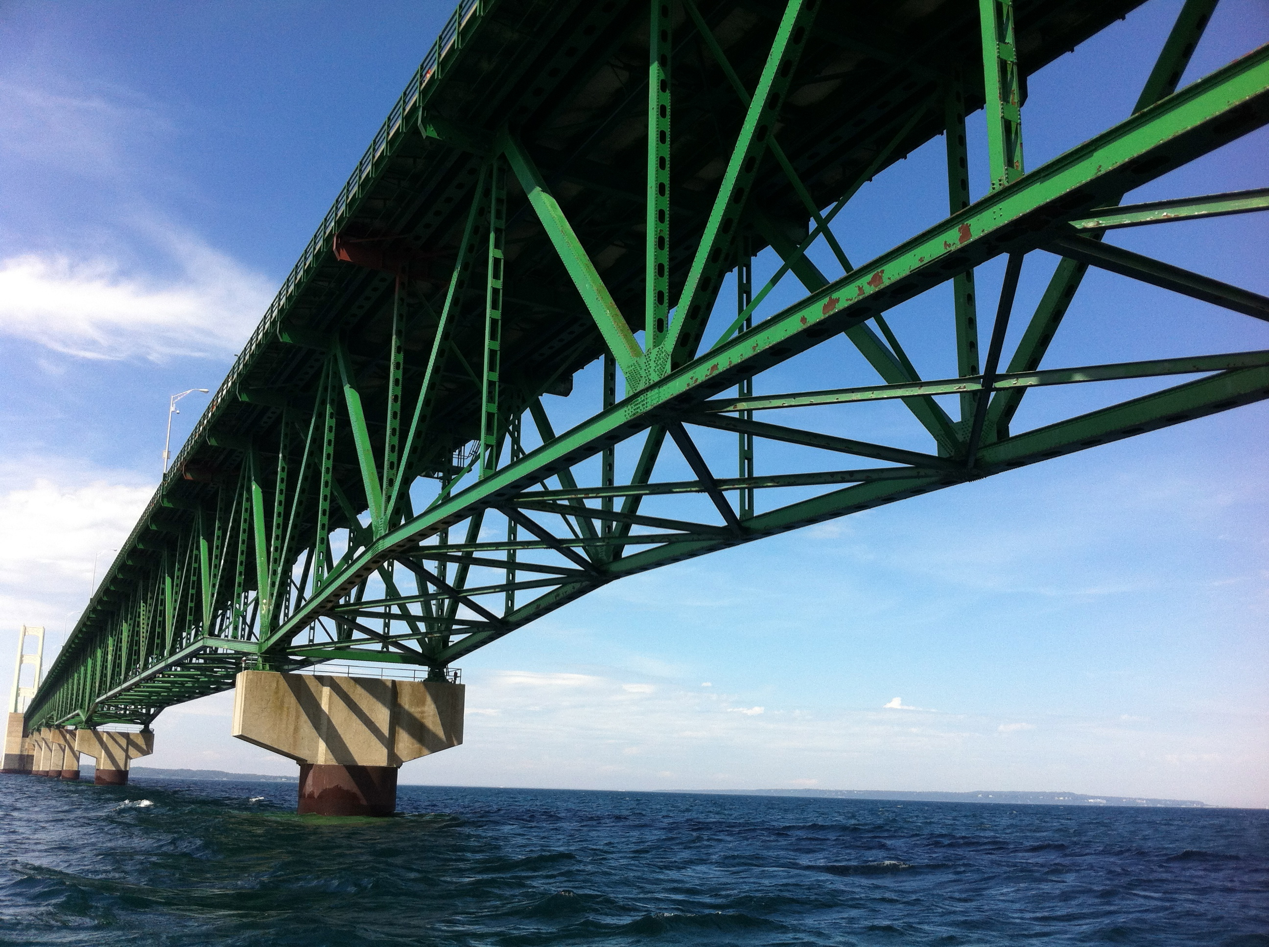 Mackinac Bridge from Straits of Mackinac during tour on the Straits Area Tour Company's Ugly Anne